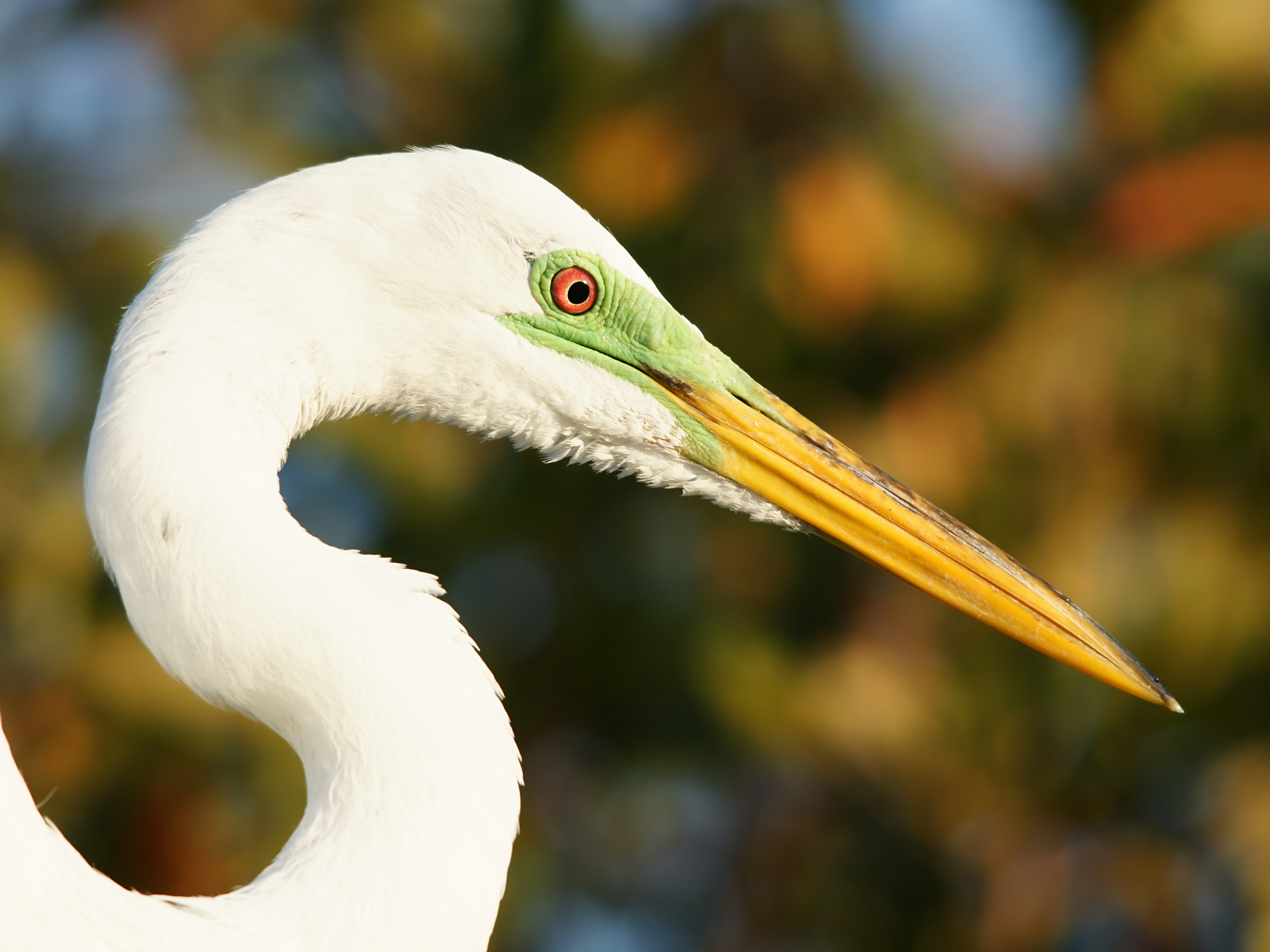 Close up of a Great Egret on Dove Key in Monroe County, Florida, U.S.A.